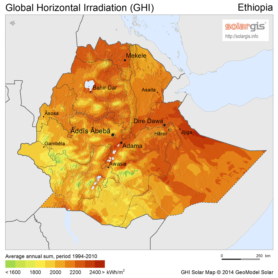 Solar Radiation Map: Global Horizontal Irradiation Map of Ethiopia, SolarGIS. English version.